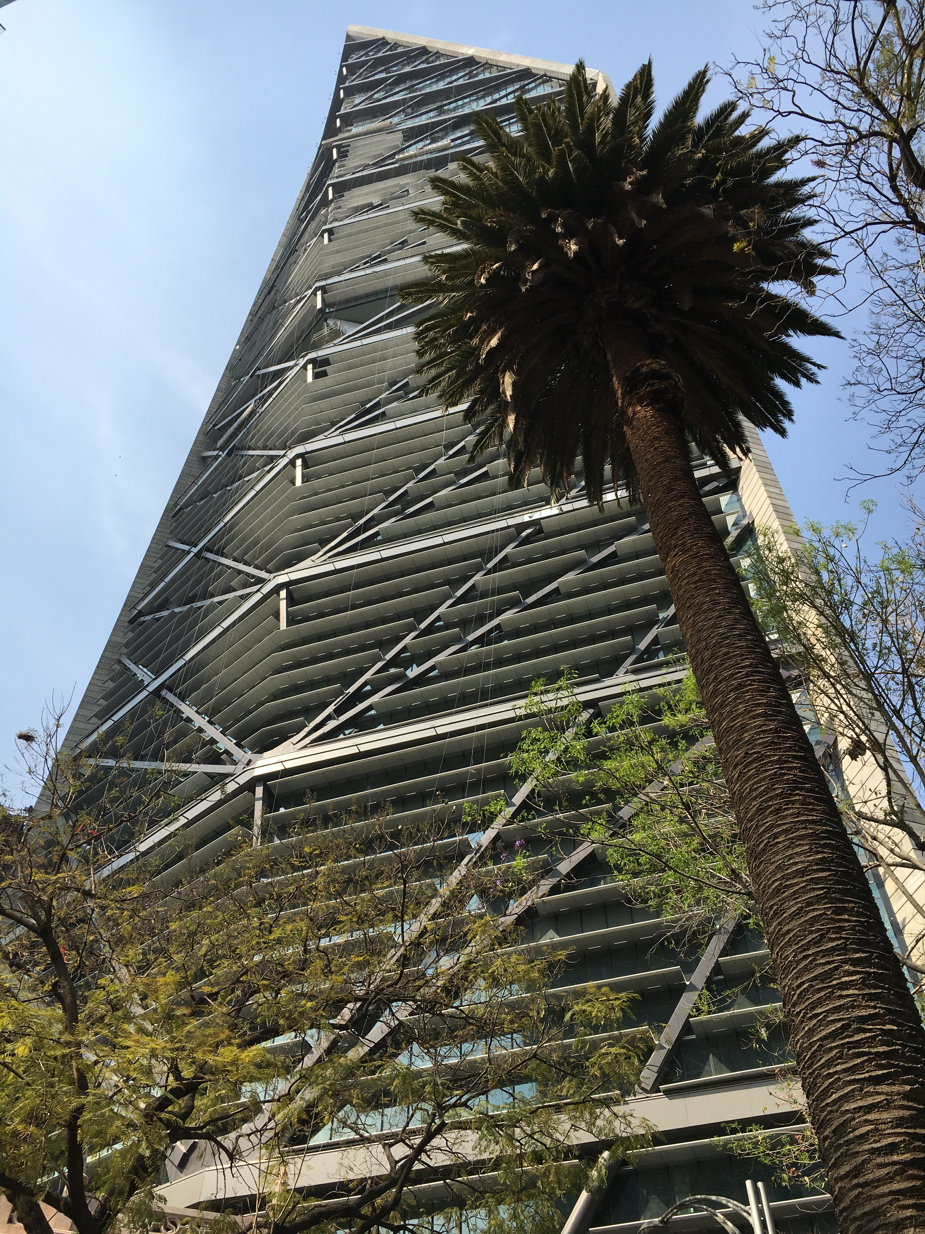 Torre Reforma in February 2016